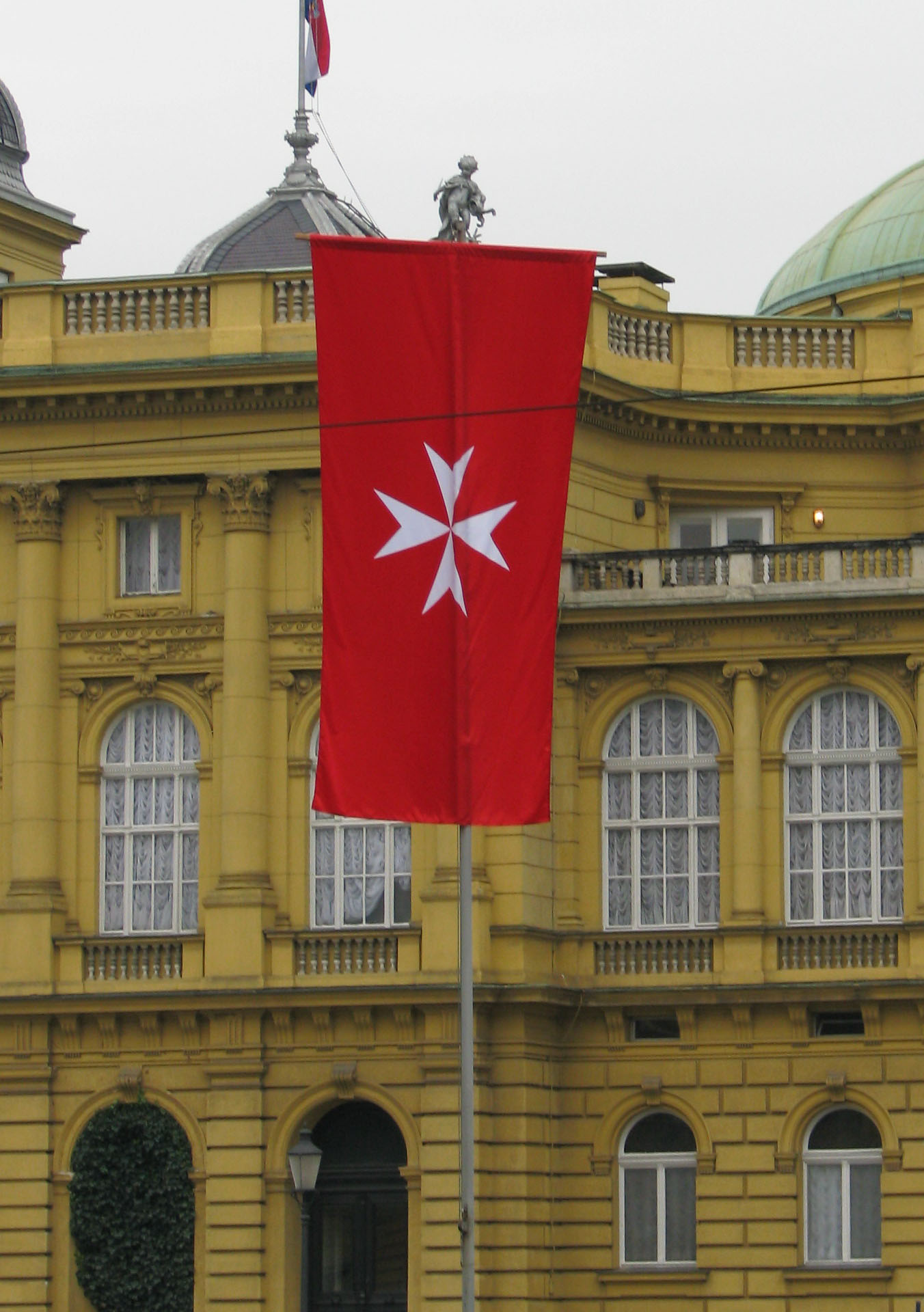 Flag of Sovereign Military Order of Malta in Zagreb, during the visit of Grand Master Fra' Matthew Festing to the Republic of Croatia on November 25, 2008